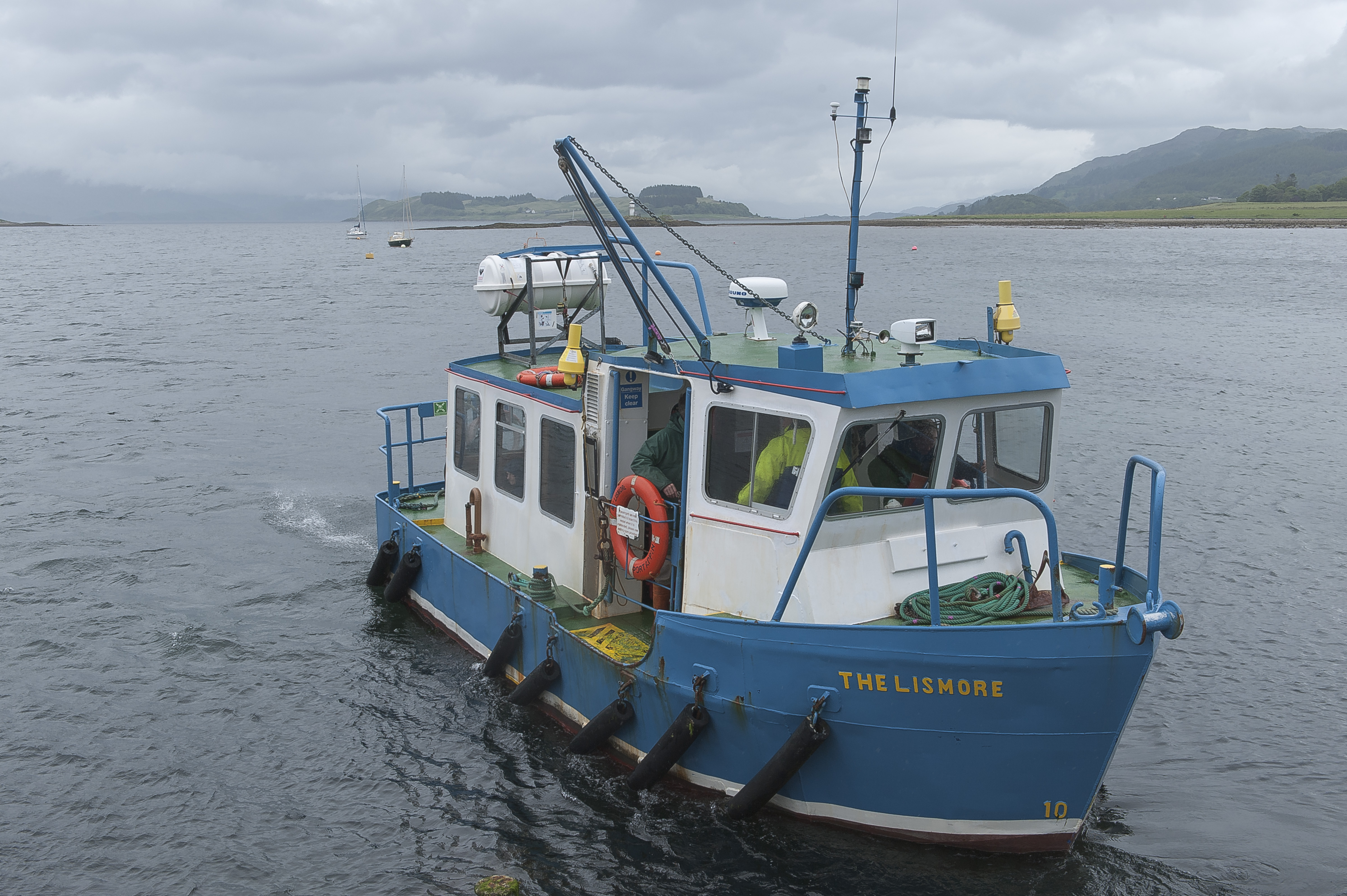 Ferry from Port Appin to Lismore island, Scotland